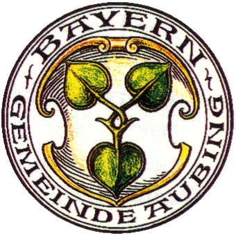 seal of the former municipality of Aubing, since 1942 part of Munich